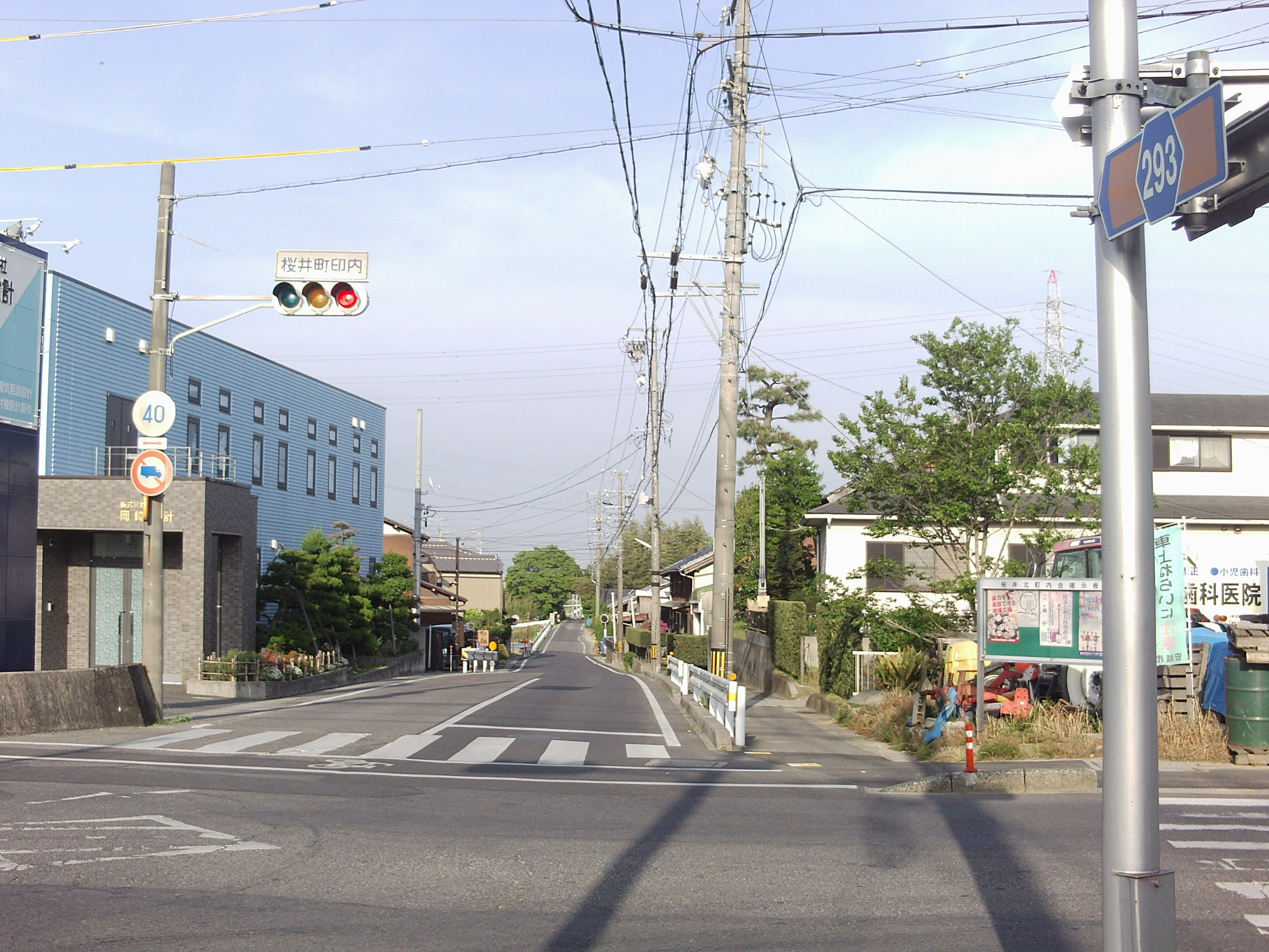 Aichi prefectural road No.293 in Sakuraicho, Anjo, Aichi.